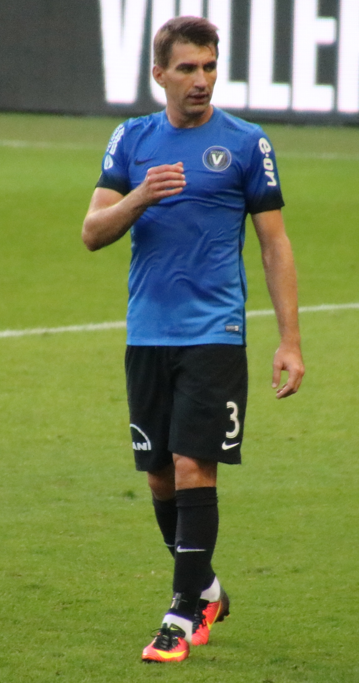 Euroleague play off 2nd leg